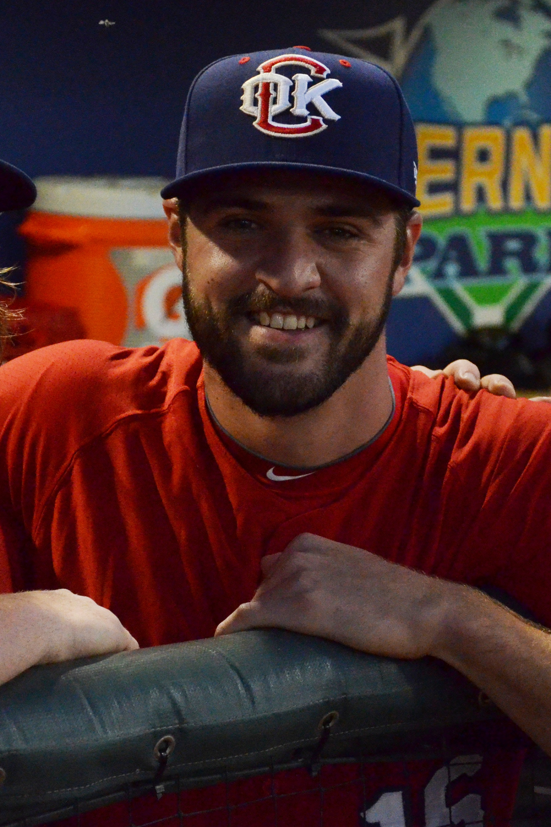 Nick Tropeano